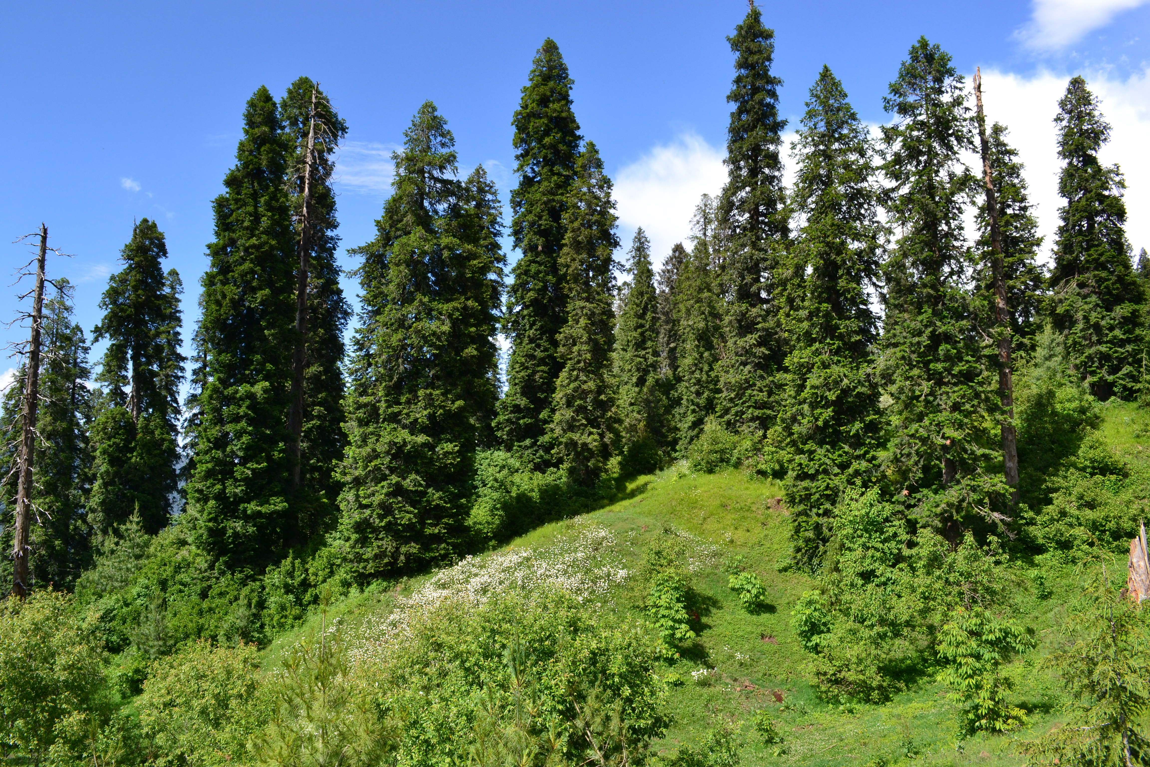 Abies pindrow trees, Mukeshpuri